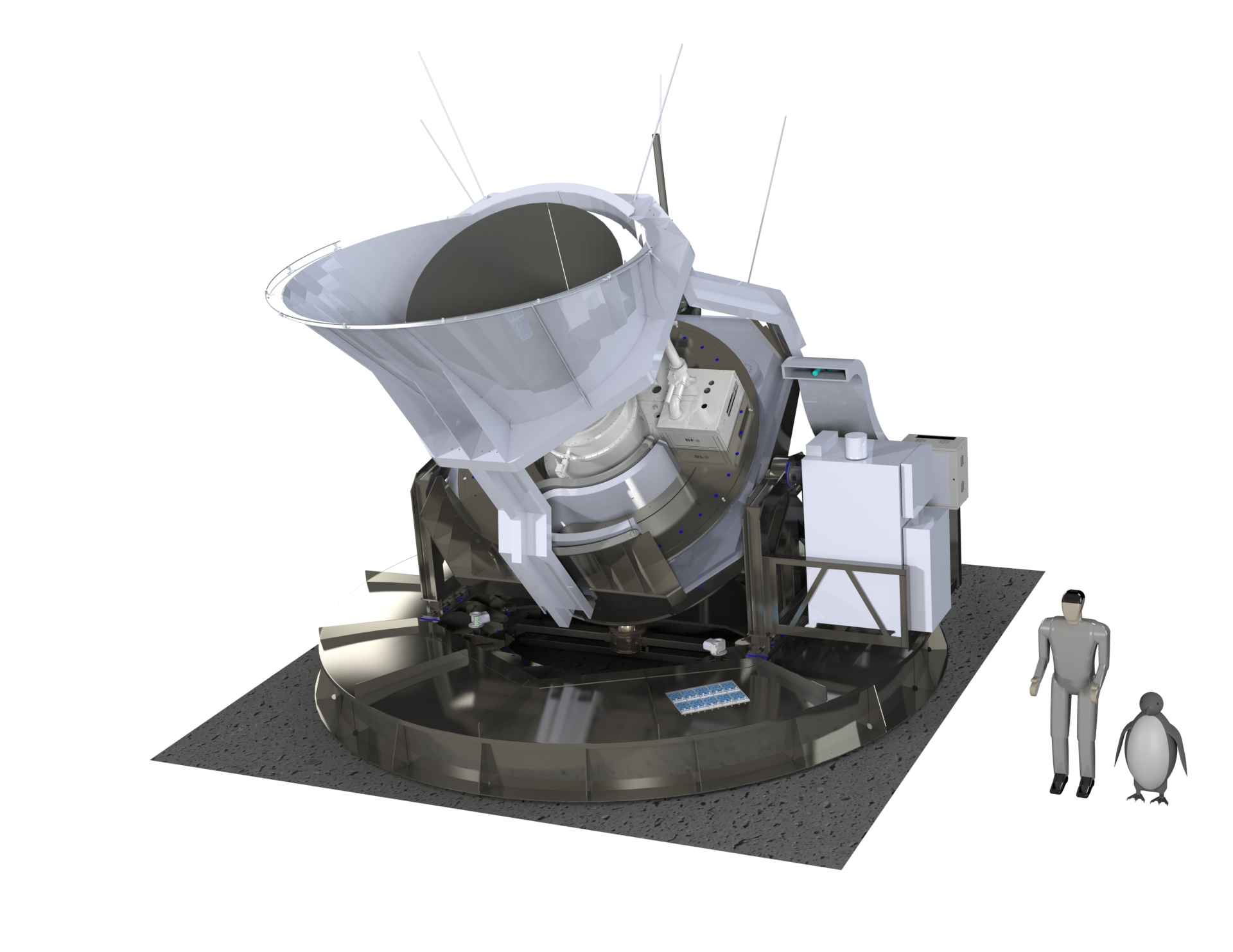 A rendering of the Simons Observatory small aperture telescope on its mount. The comoving ground screens can be seen along with the electronics and detector readout systems.